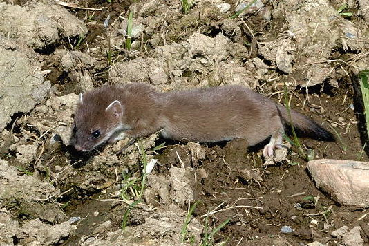 young Mustela erminea from Commanster, Belgian High Ardennes (50°15'20``N,5°59'58``E)